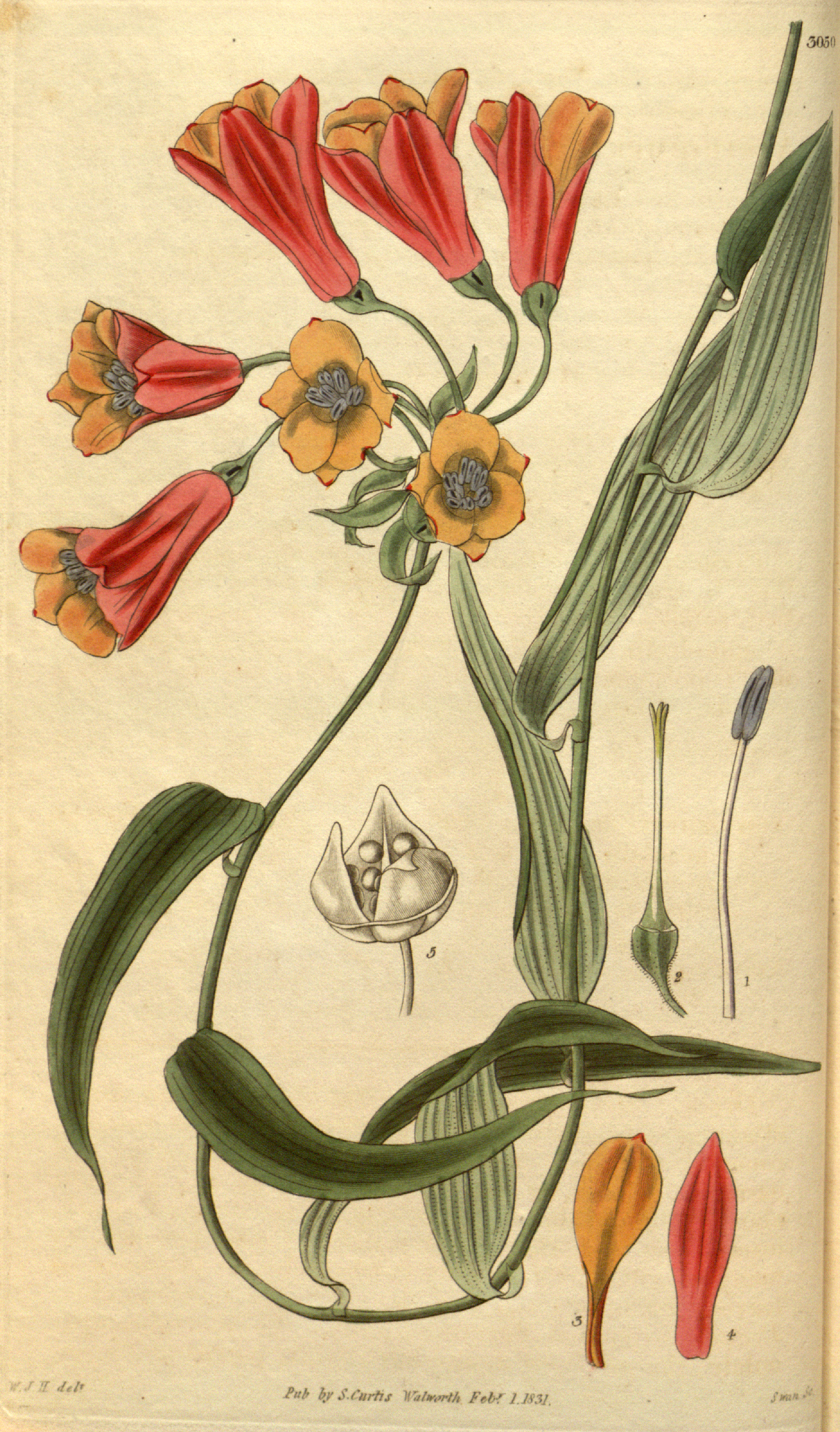 Bomarea acutifolia (Link & Otto) Herb. (as Alstroemeria acutifolia Link & Otto ). This is a plate from Curtis's Botanical Magazine, Volume 58.